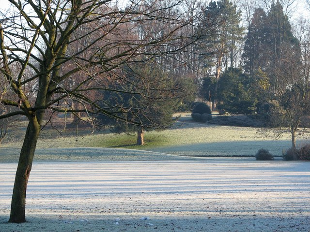 Frosty Greville Smyth Park